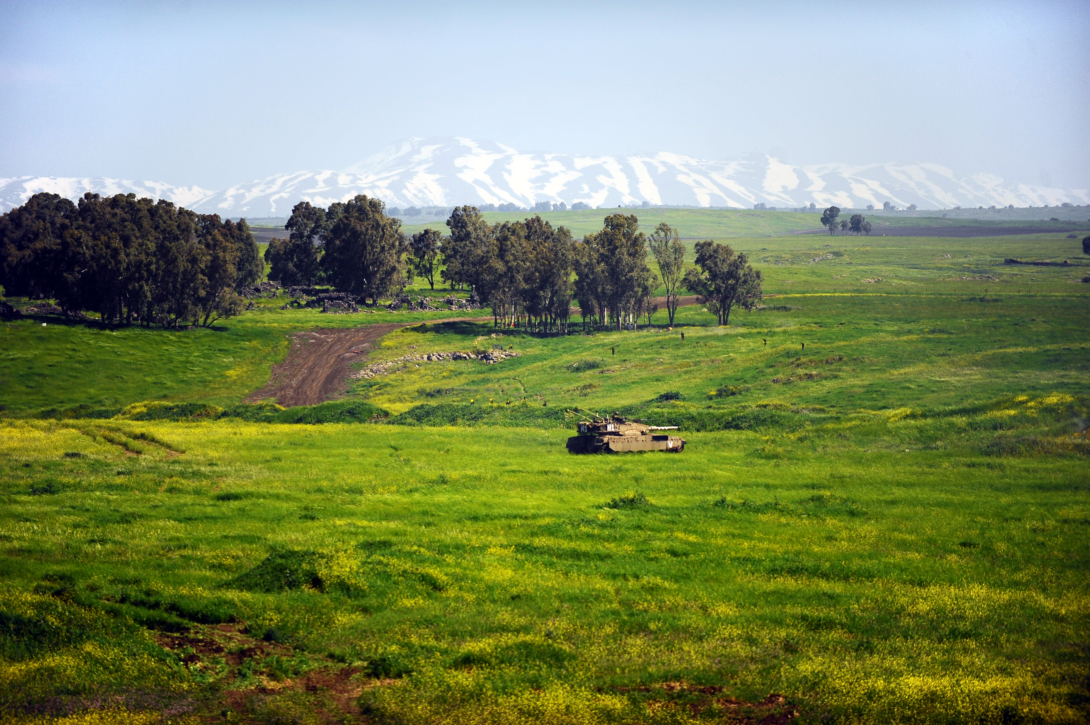 An IDF tank keeps a watchful eye over the Golan Heights. The snow-capped Mt. Hermon is in the background. Photo by Ori Shifrin, IDF Spokesperson's Unit The Israel Defense Forces Facebook The Israel Defense Forces blog The Israel Defense Forces website The Israel Defense Forces Twitter